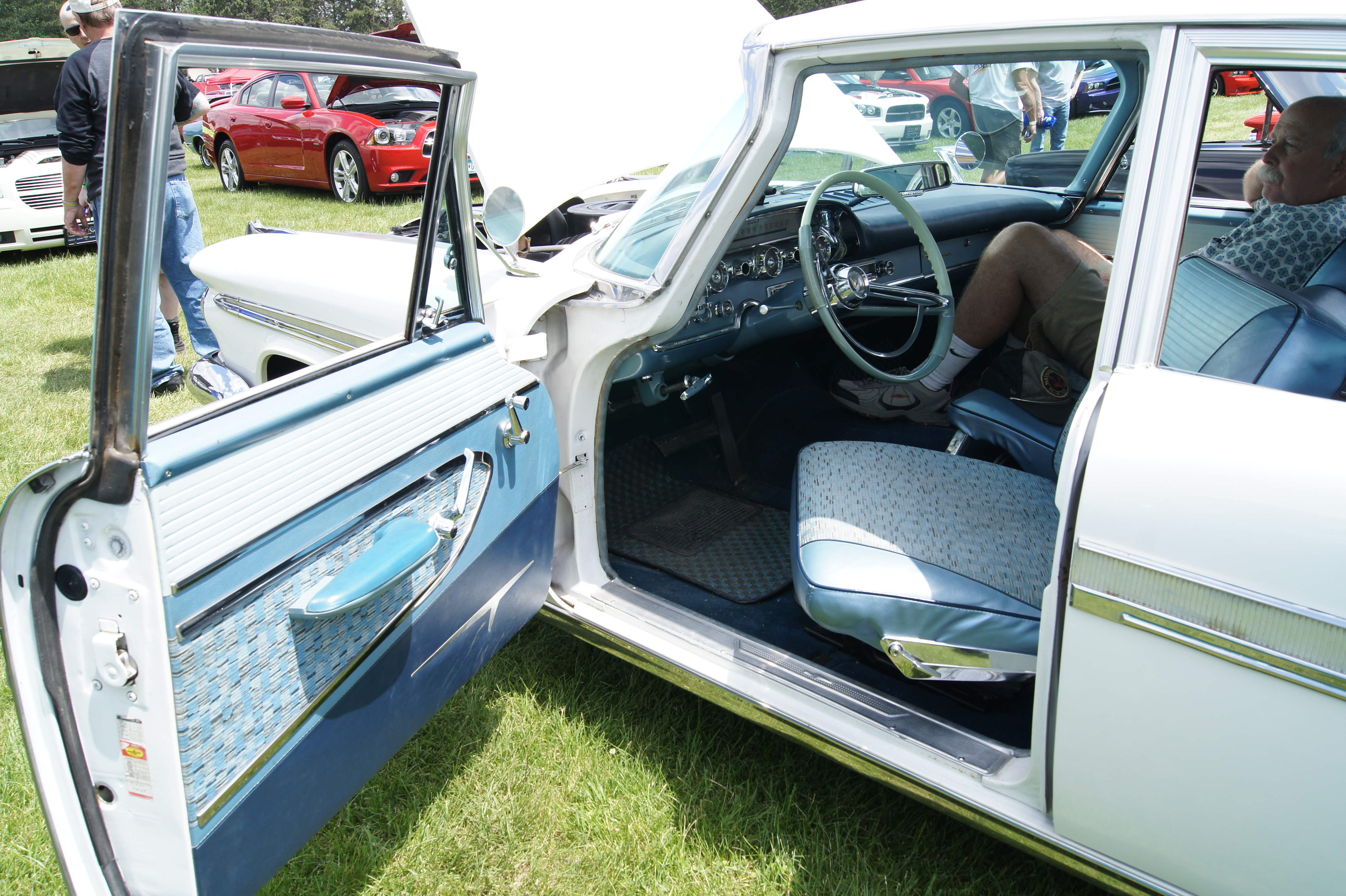 28th Annual Midwest Mopars in the Park June 2, 2012